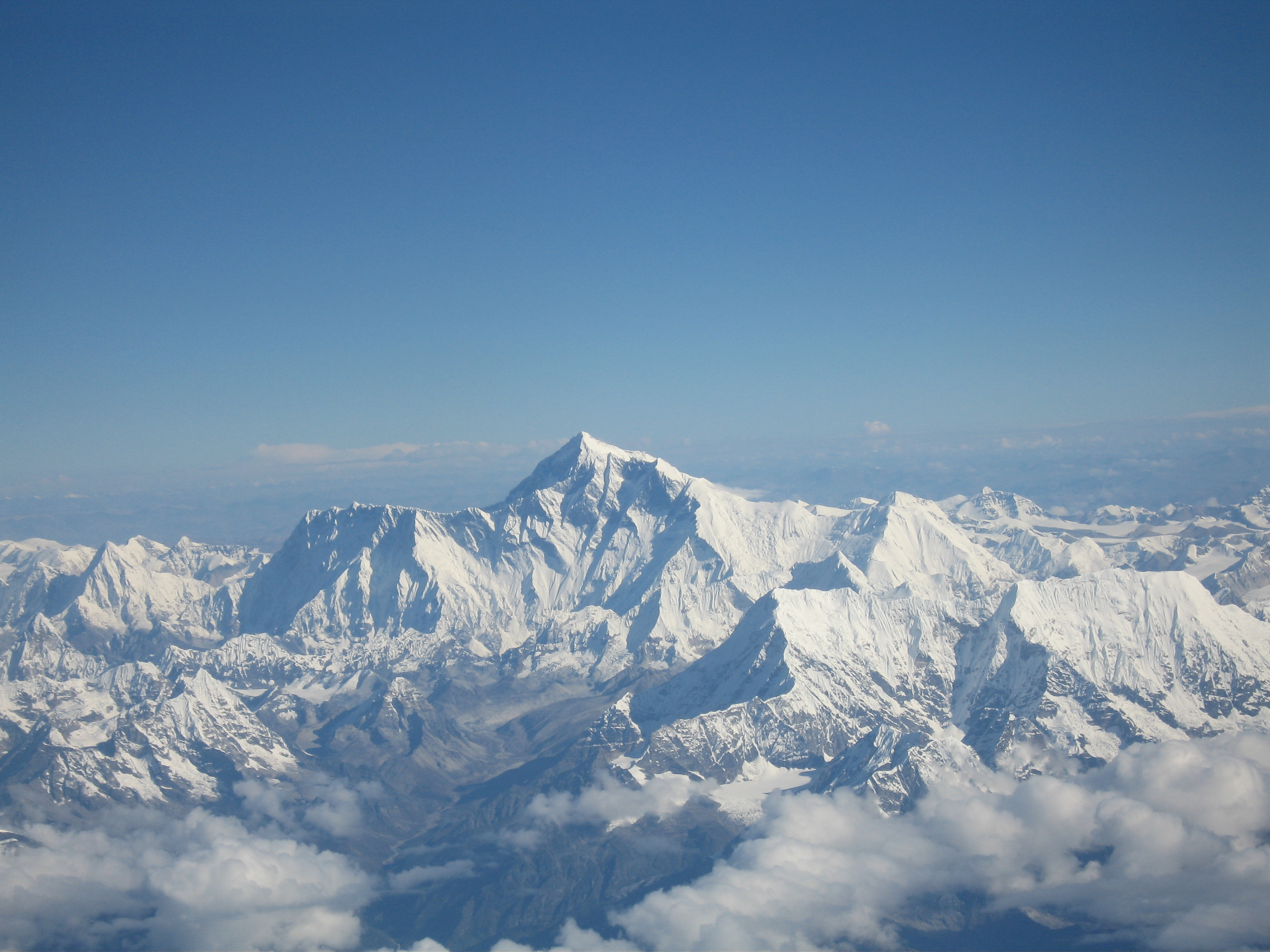 Mount Everest as seen from the aircraft of Drukair in Bhutan